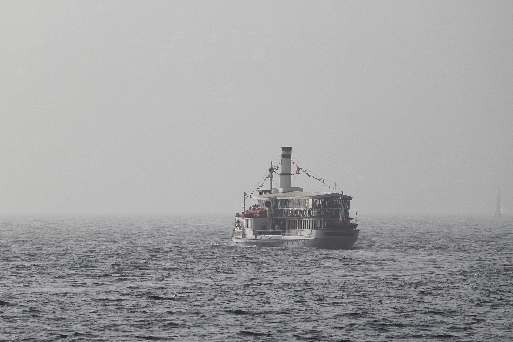 Paddle steamer "Piemonte" leaving the gulf of Ascona.